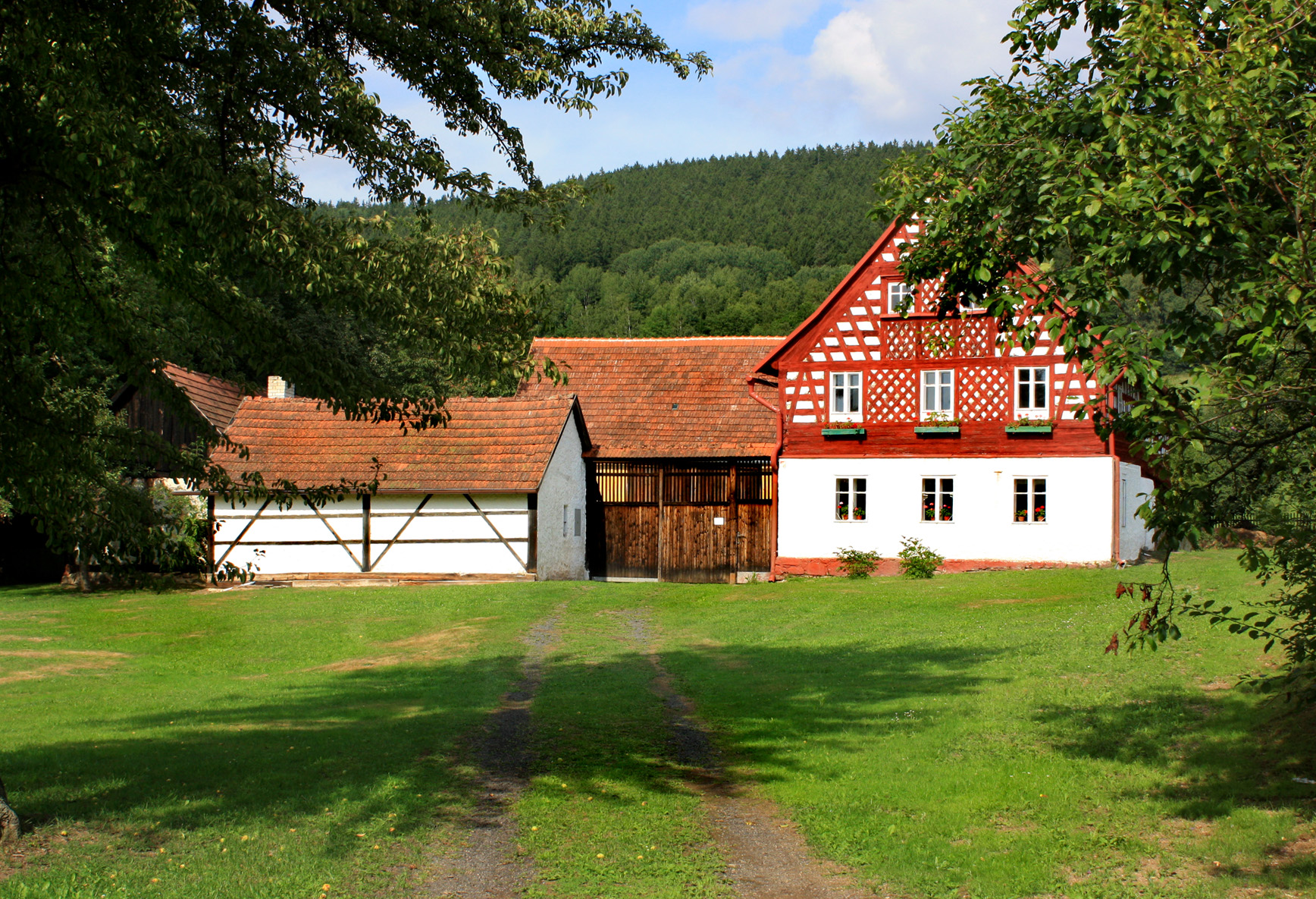 Protected farm in Milíkov village, Czech Republic